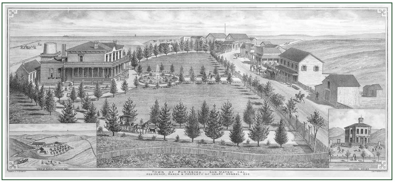 Dobbel built a big, ornate house on the bank of Purisima Creek. The house had two stories and 17 rooms; it boasted such innovations as gas lighting and running water. Dobbel employed 50 men who planted and harvested wheat, barley, and potatoes.